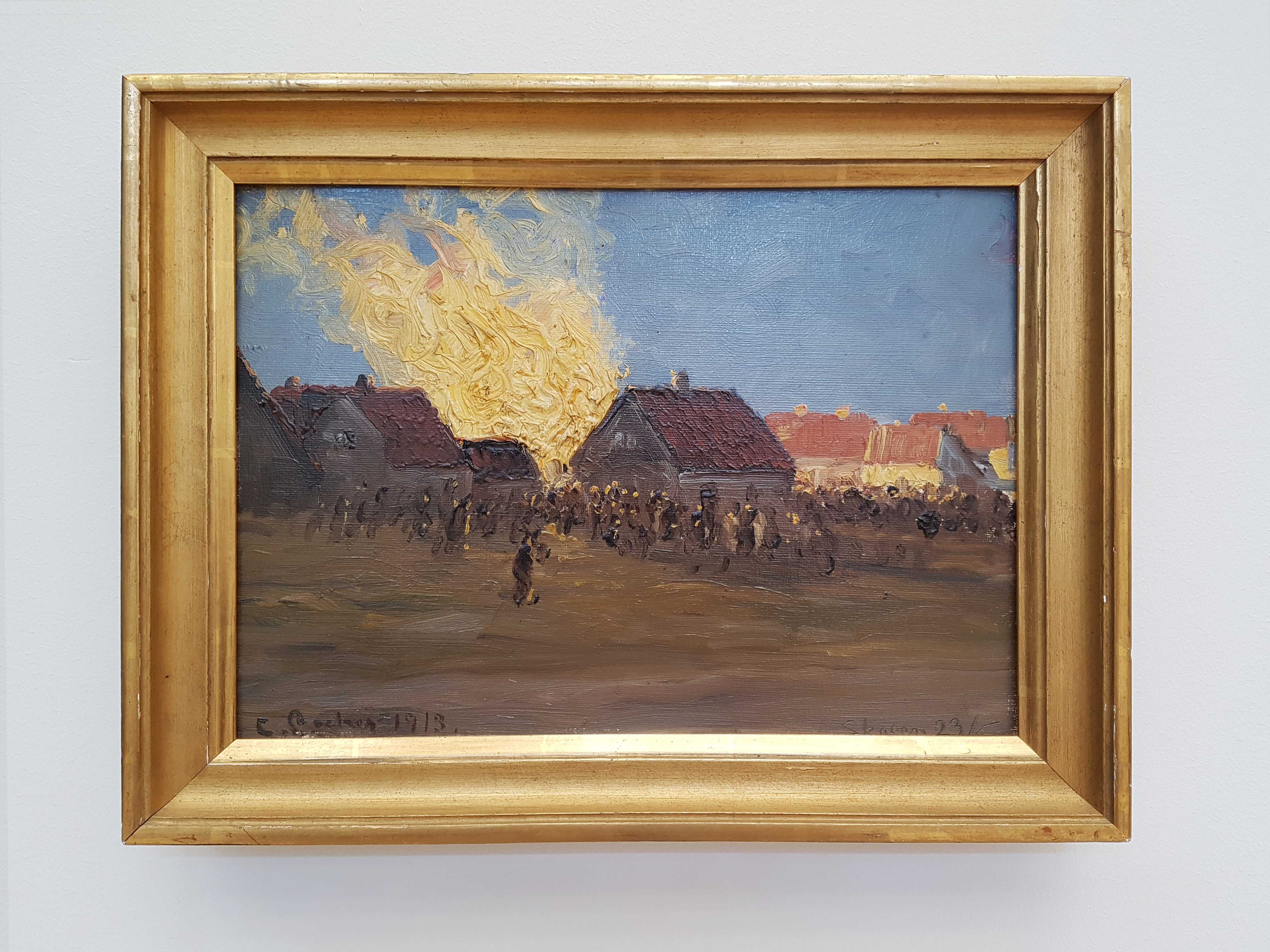 Carl Locher's Shoemaker Bonatzi's house is burnt as the Midsummer's Eve bonfire from 23 June 1913 - as seen in the exhibition 'Fokus' at Skagens Museum